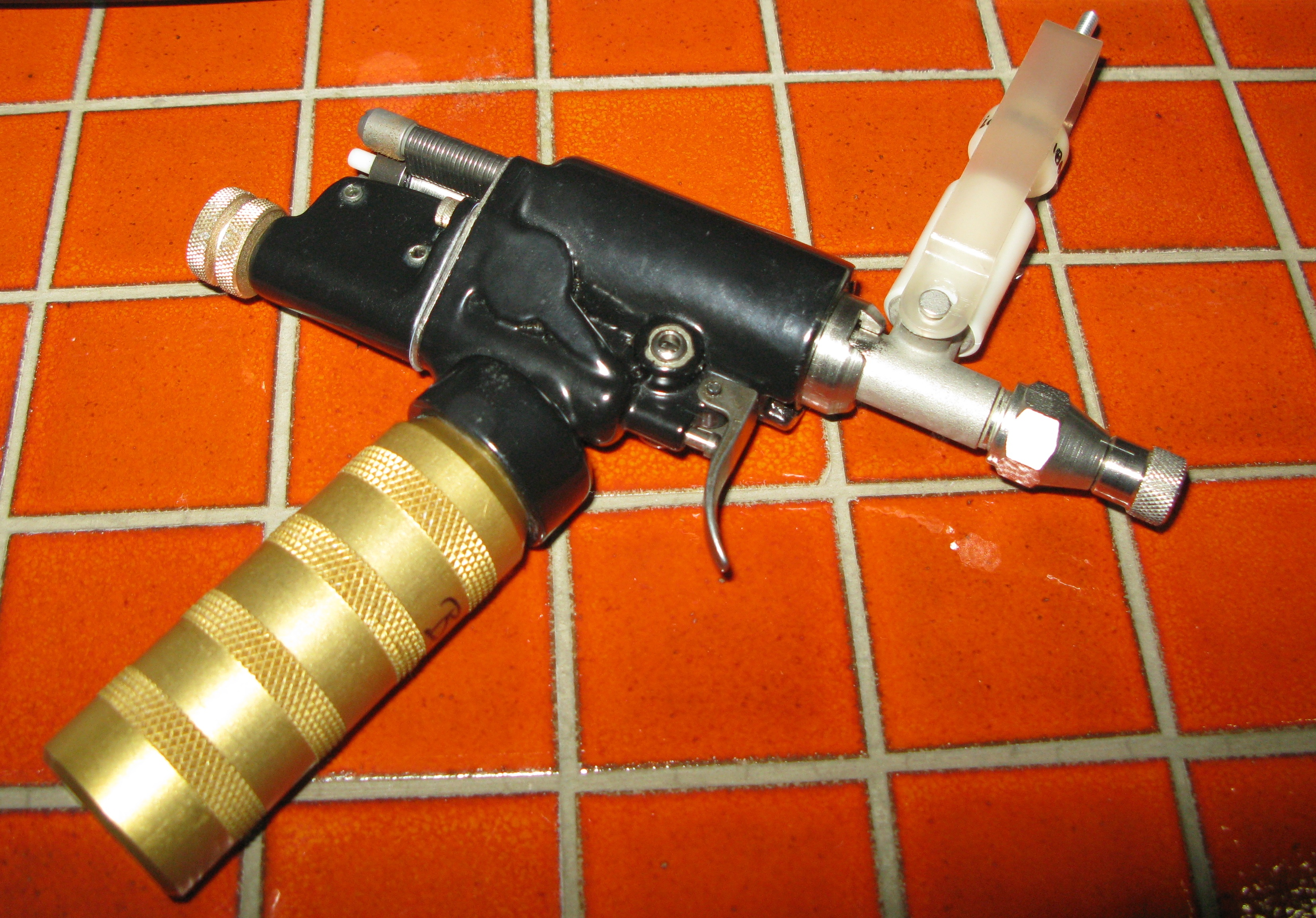 Photo of a Jet injector.A Med-E-Jet vaccination gun from 1980